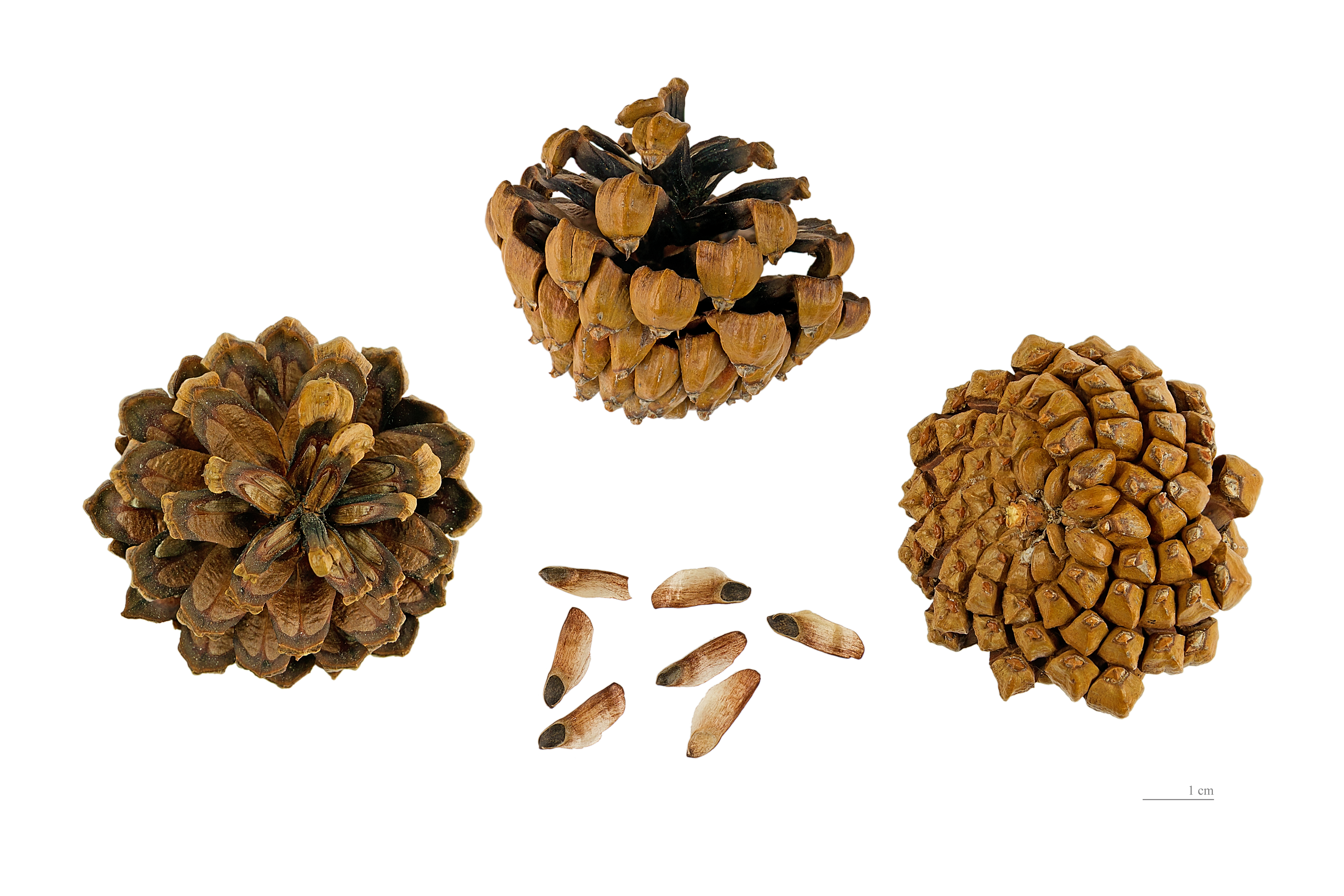 Cones and seeds of Mountain Pine Pinus mugo subsp. uncinata